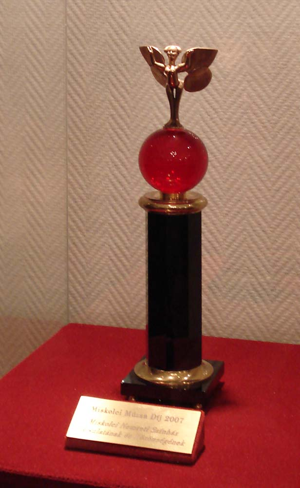 Miskolc Muse Award 2007, National Theatre of Miskolc, Hungary